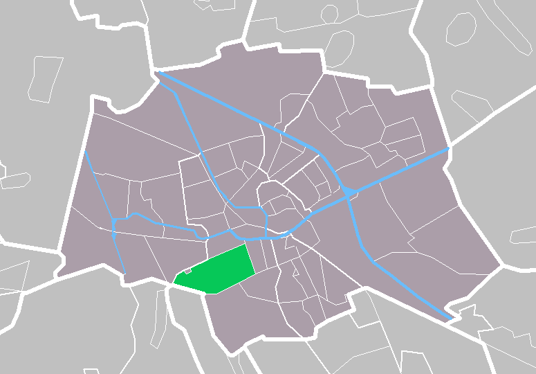 Location of neighbourhoods/districts in Groningen (city)